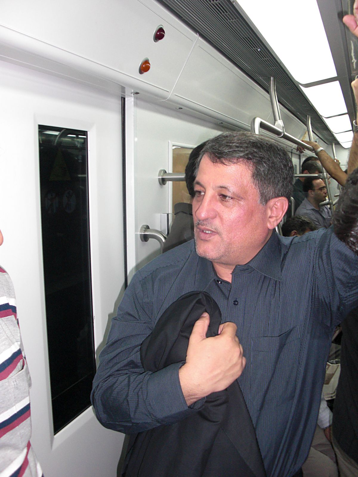 Mohsen Hashemi Rafsanjani in Tehran subway.